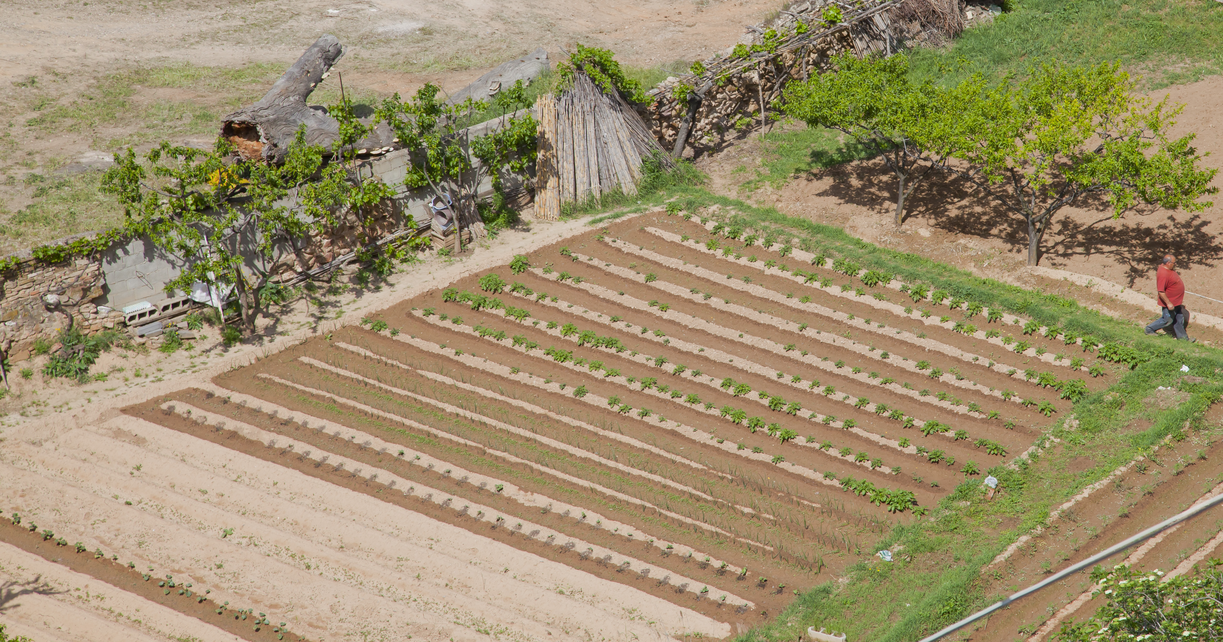 Garden, Huermeda, Spain